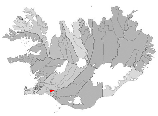 Based on Municipalities of Iceland.png.